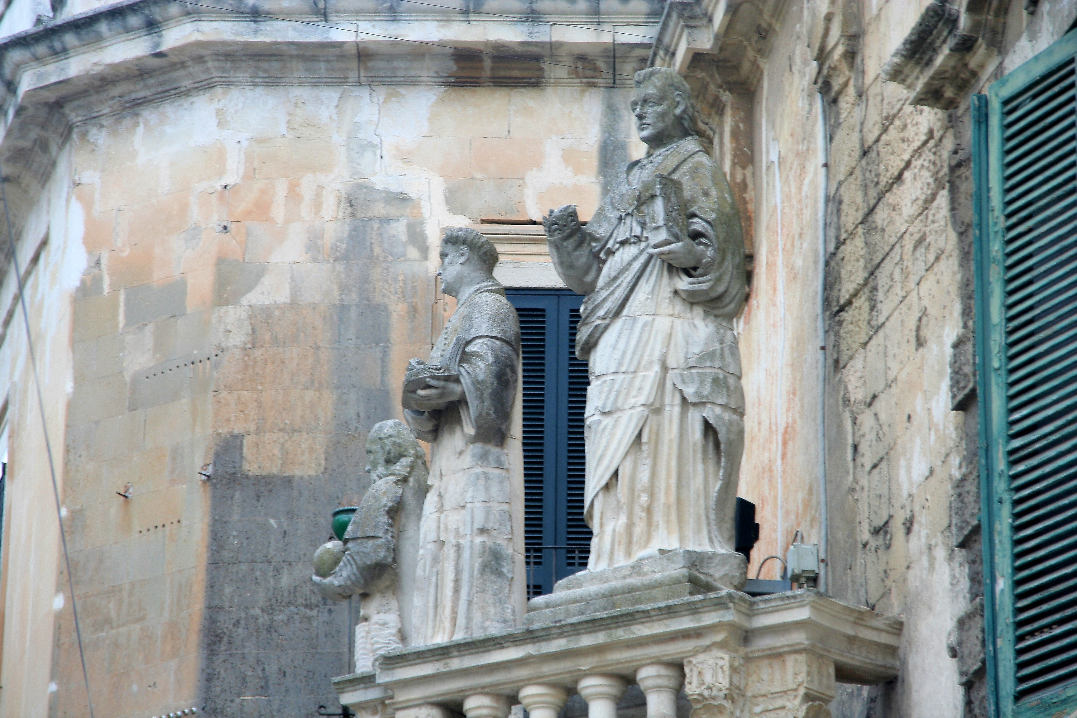 Detail of Cathedral's square.